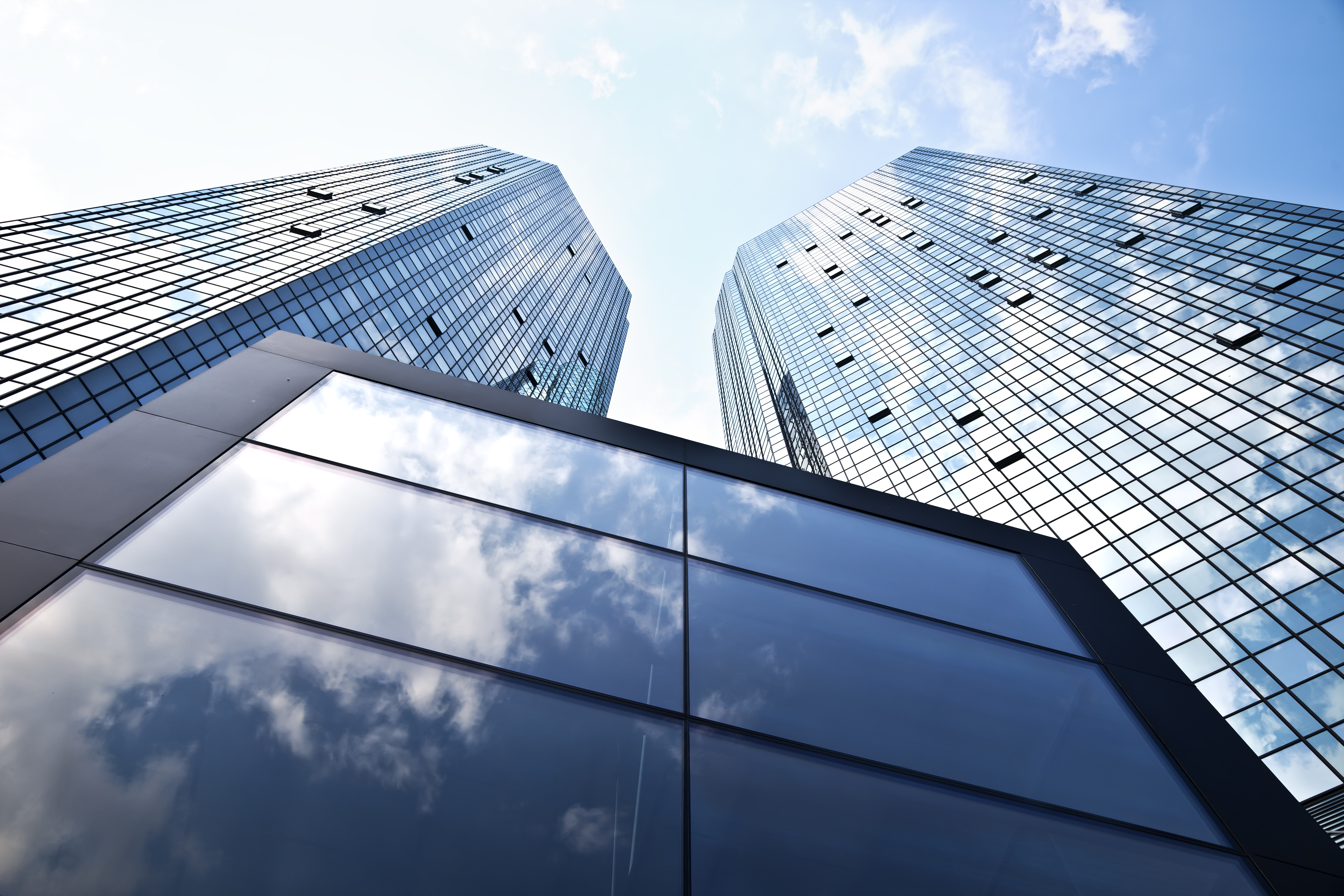 Deutsche Bank Twin Towers in Frankfurt, Germany